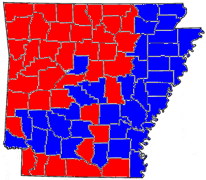 County results of the 2010 Arkansas Lieutenant governor election. Mark Darr (R) Shane Broadway (D)